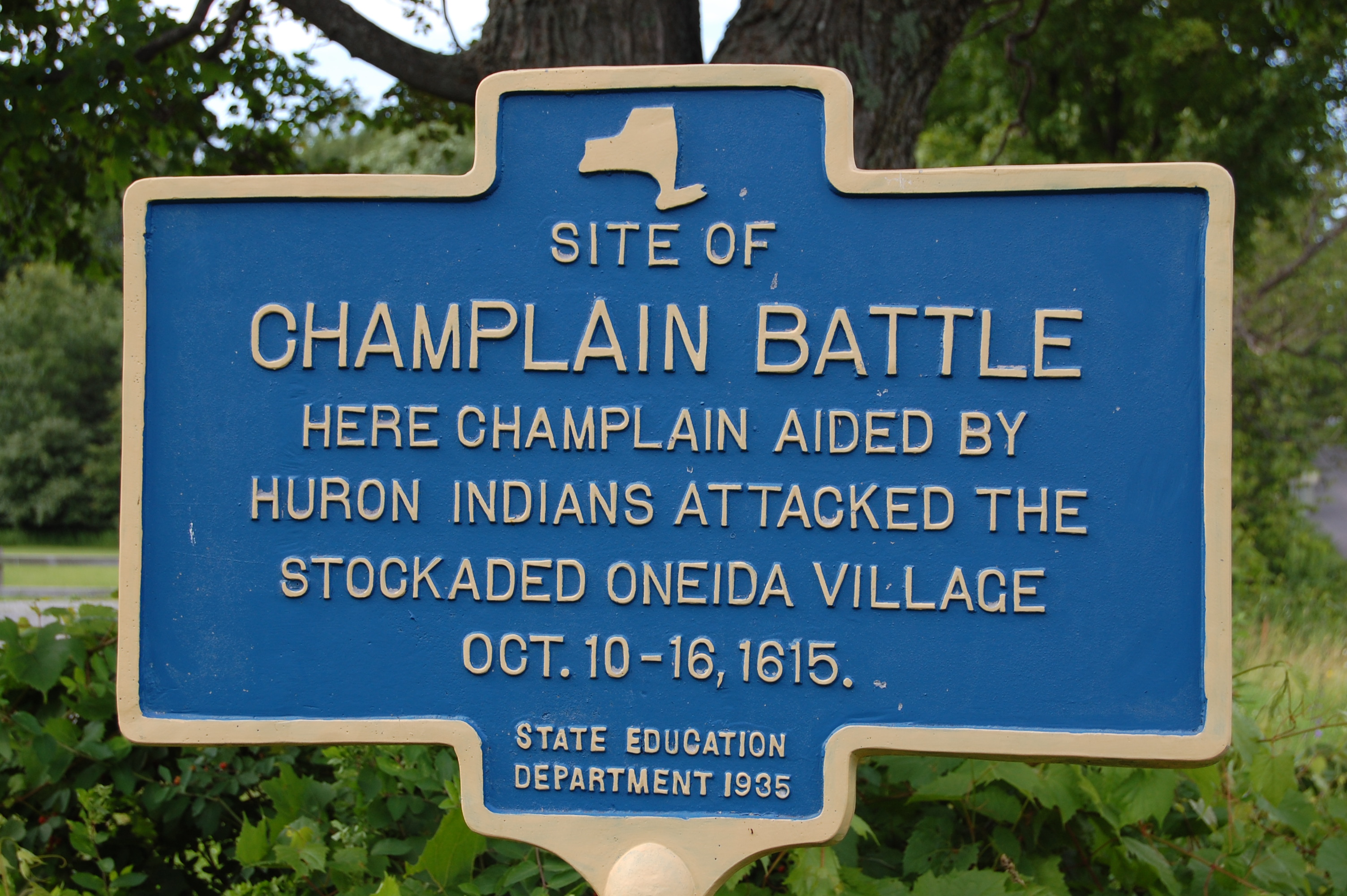 Here Champlain aided by Huron Indians attacked te stockaded Oneida Village Oct. 10-16, 1615